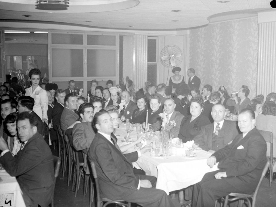 We see the guests at the tables of the wedding banquet of Rosenberg. The reception was held at Moishe's Restaurant St. Laurent Boulevard in Montreal.